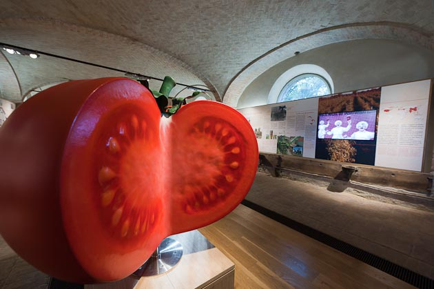 Museum of the tomato - Collecchio (PR) - Italy